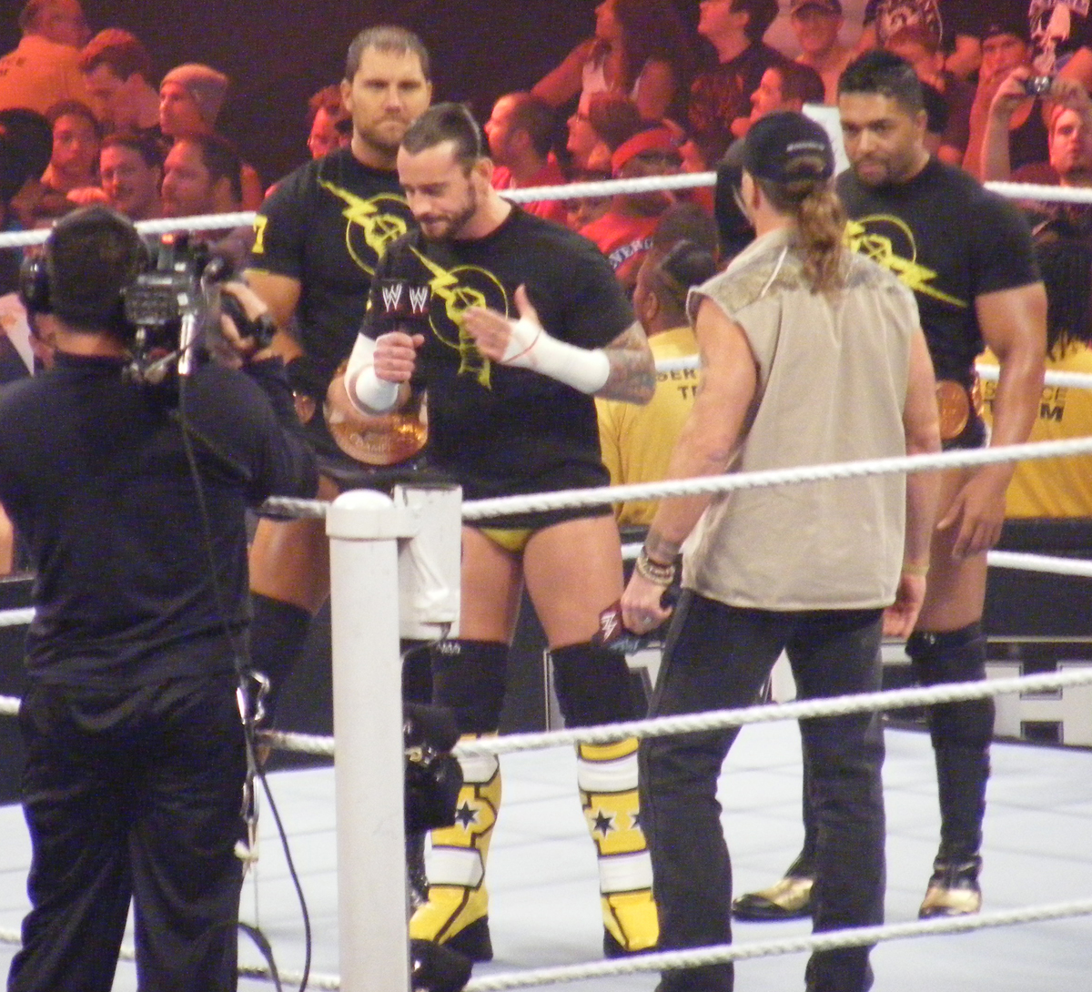 CM Punk and New Nexus appear together for the final time.